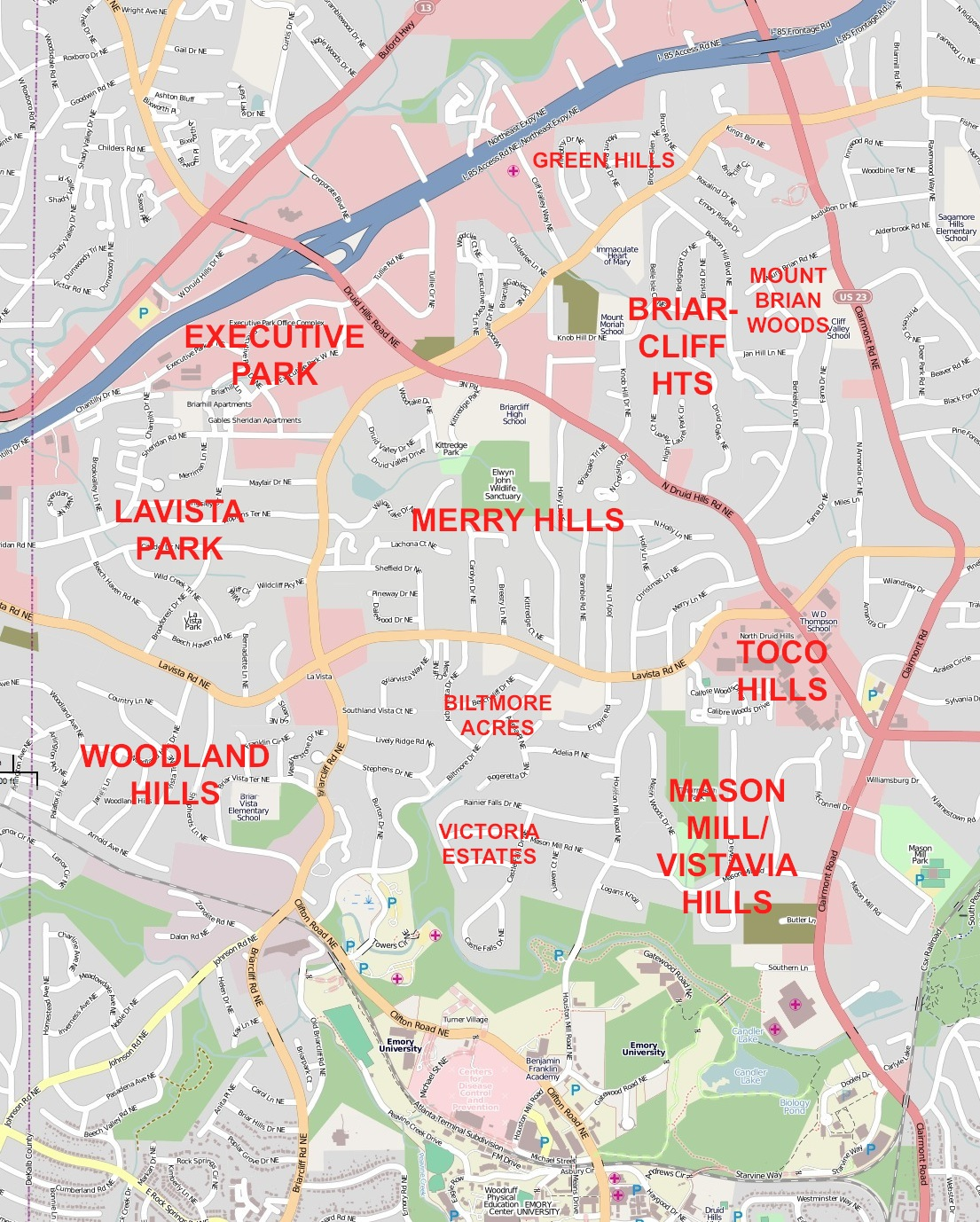 North Druid Hills CDP, Georgia, USA with neighborhoods shown